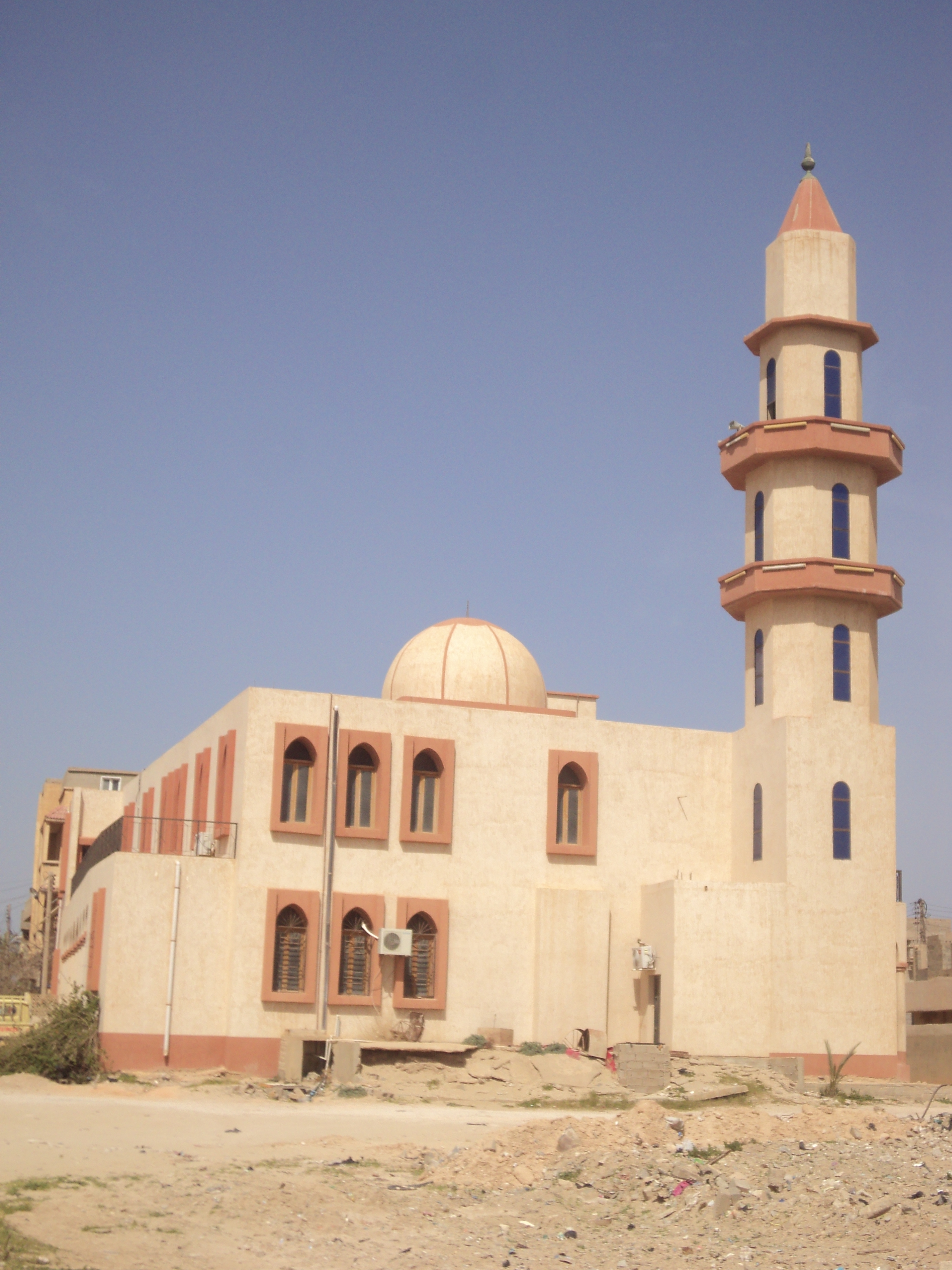 Bani Hashim mosque, Benghazi.